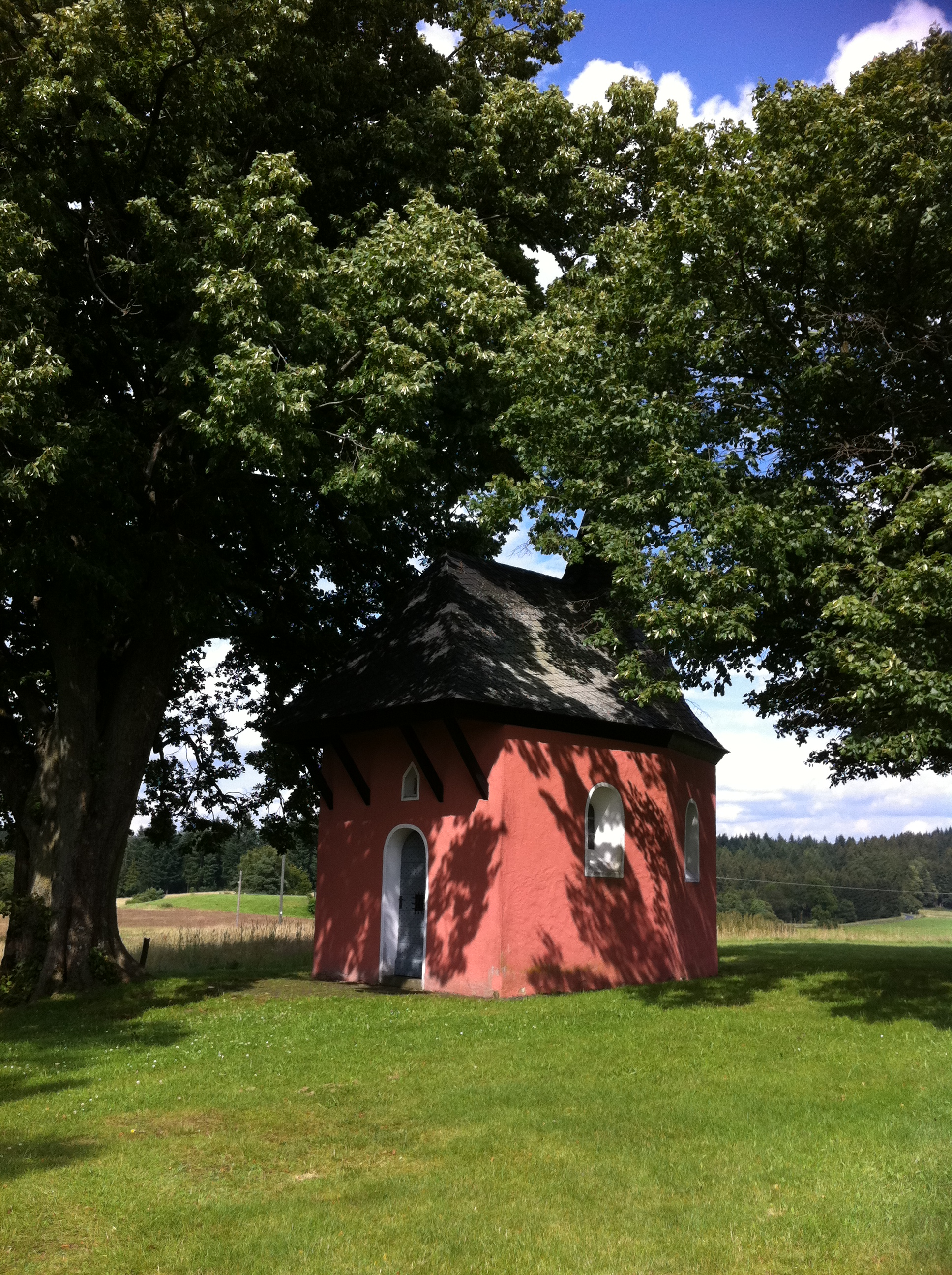 red chapel overlooking the village of Friesenhagen